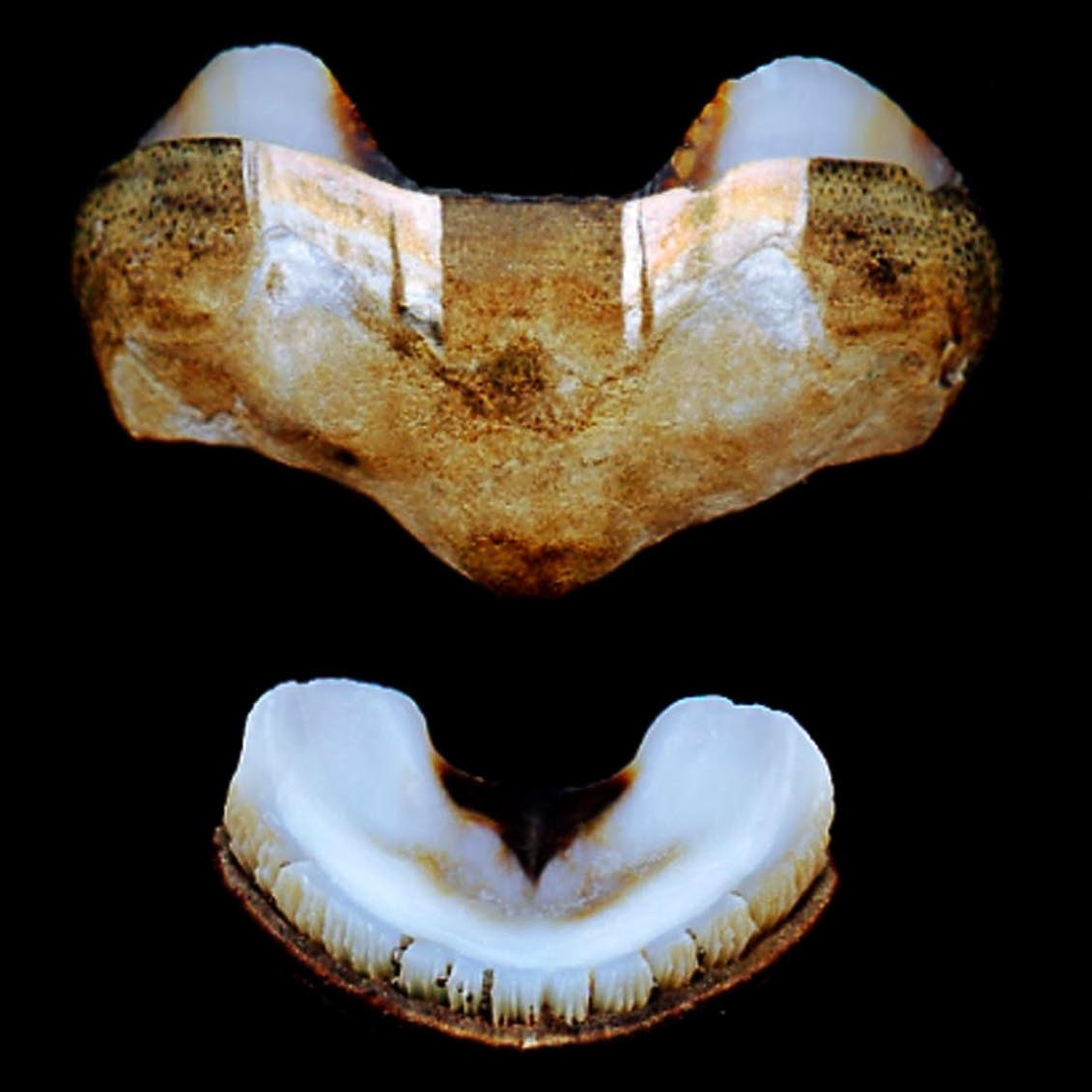 Two shell plates of the chiton Acanthopleura granulata: dorsal (from above) view of an intermediate plate (32 mm) and underside view of a tail plate (21 mm).